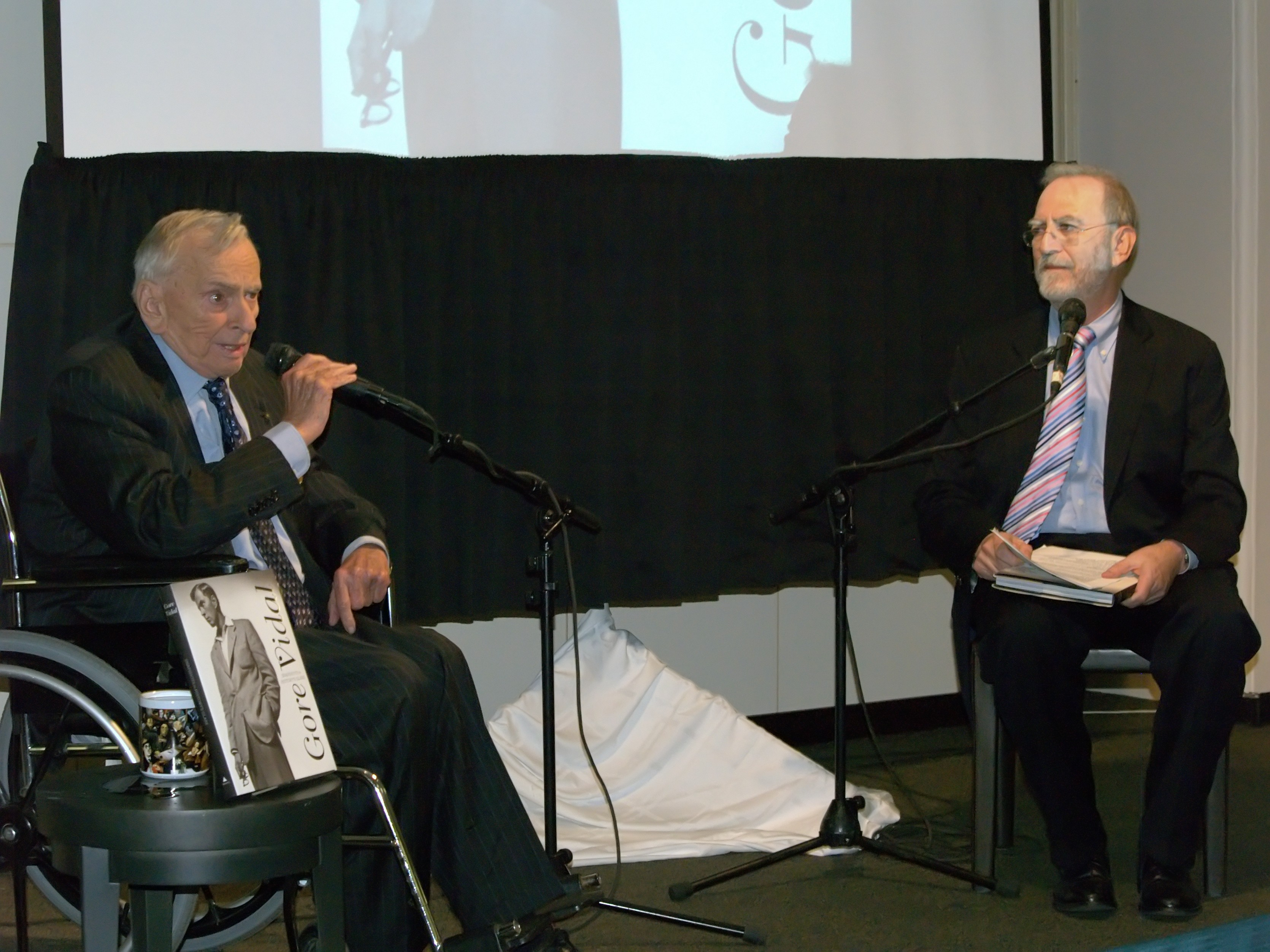 Gore Vidal at the Union Square Barnes & Noble to be interviewed by Leonard Lopate (right) to discuss his life and his photographic memoir, Gore Vidal: Snapshots in History's Glare.